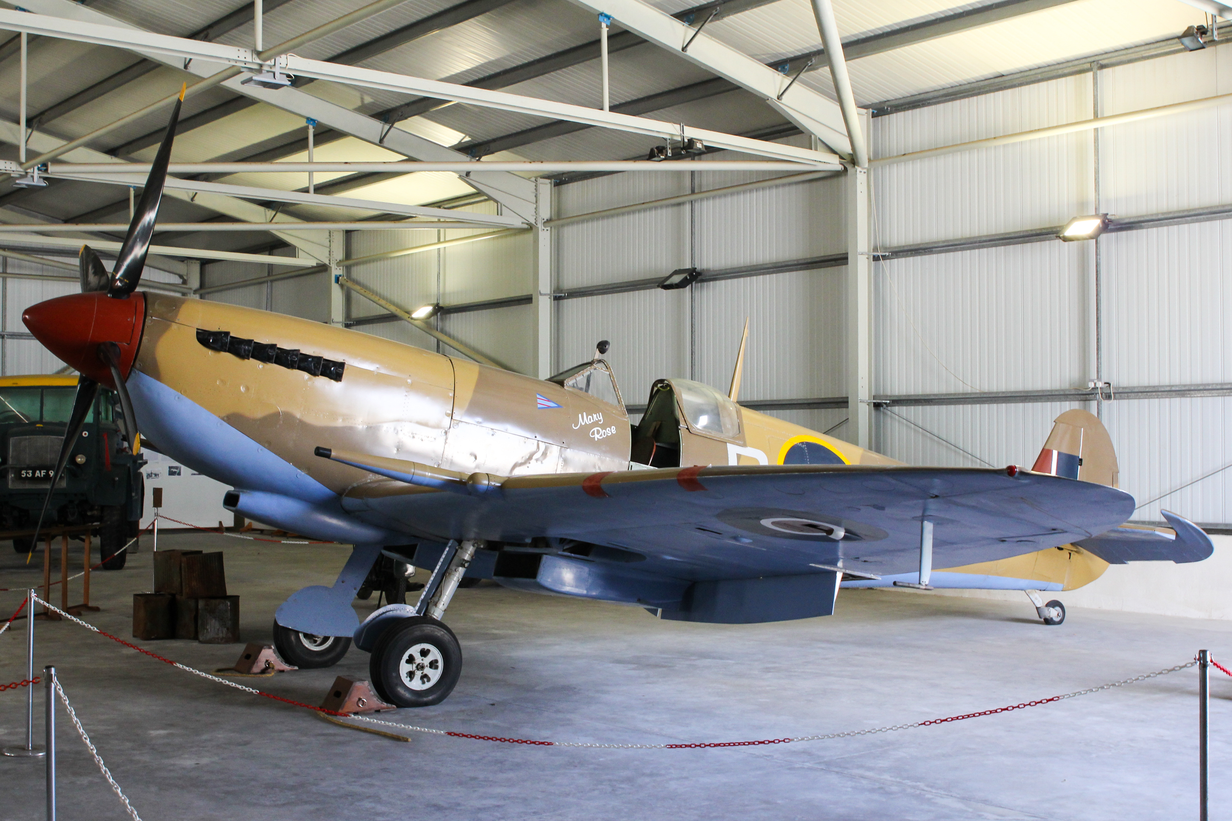 Supermarine Spitfire F Mk.IXe EN199 at the Malta Aviation Museum